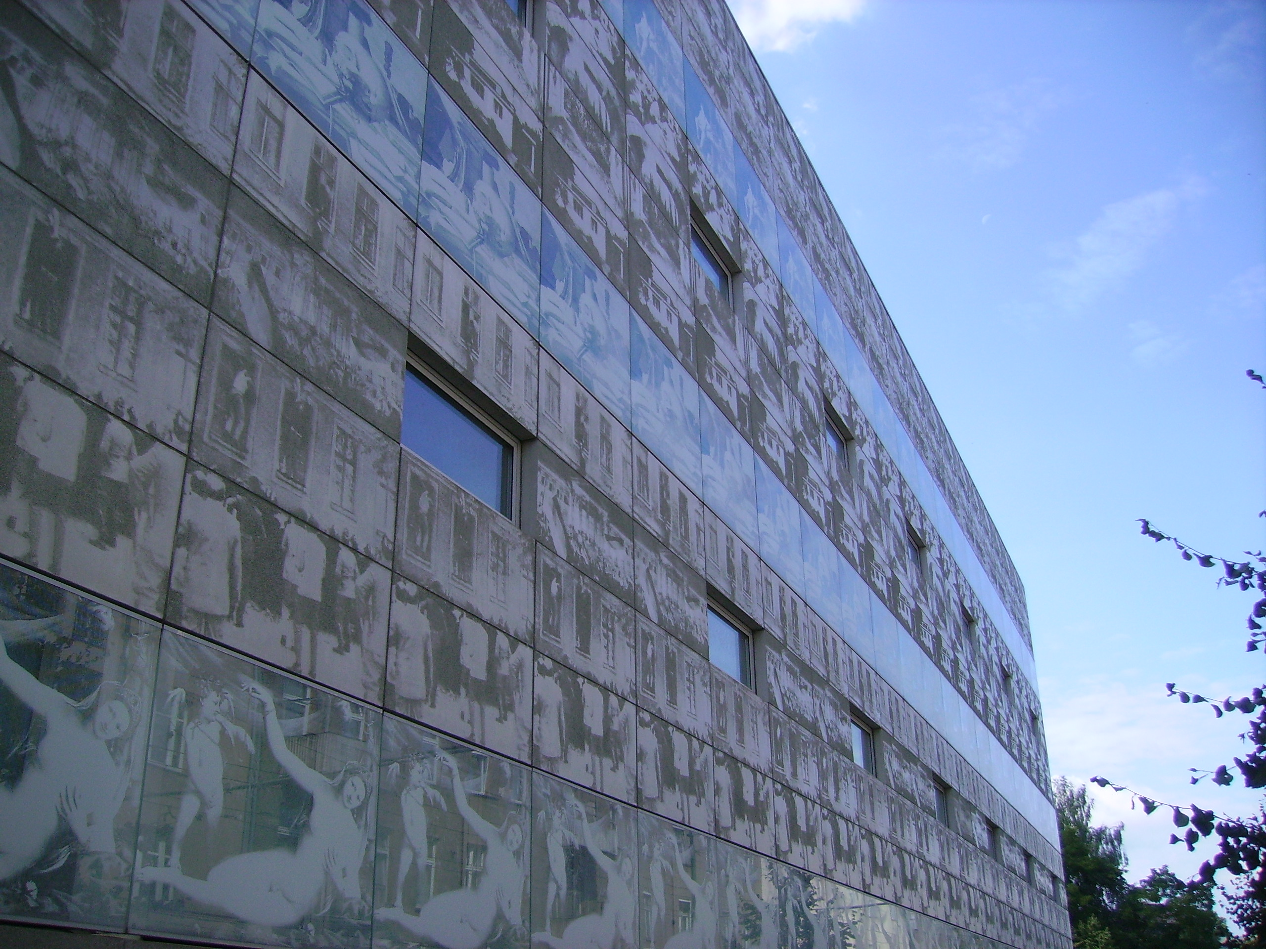 Library of University of Applied Sciences in Eberswalde in Brandenburg (Germany)